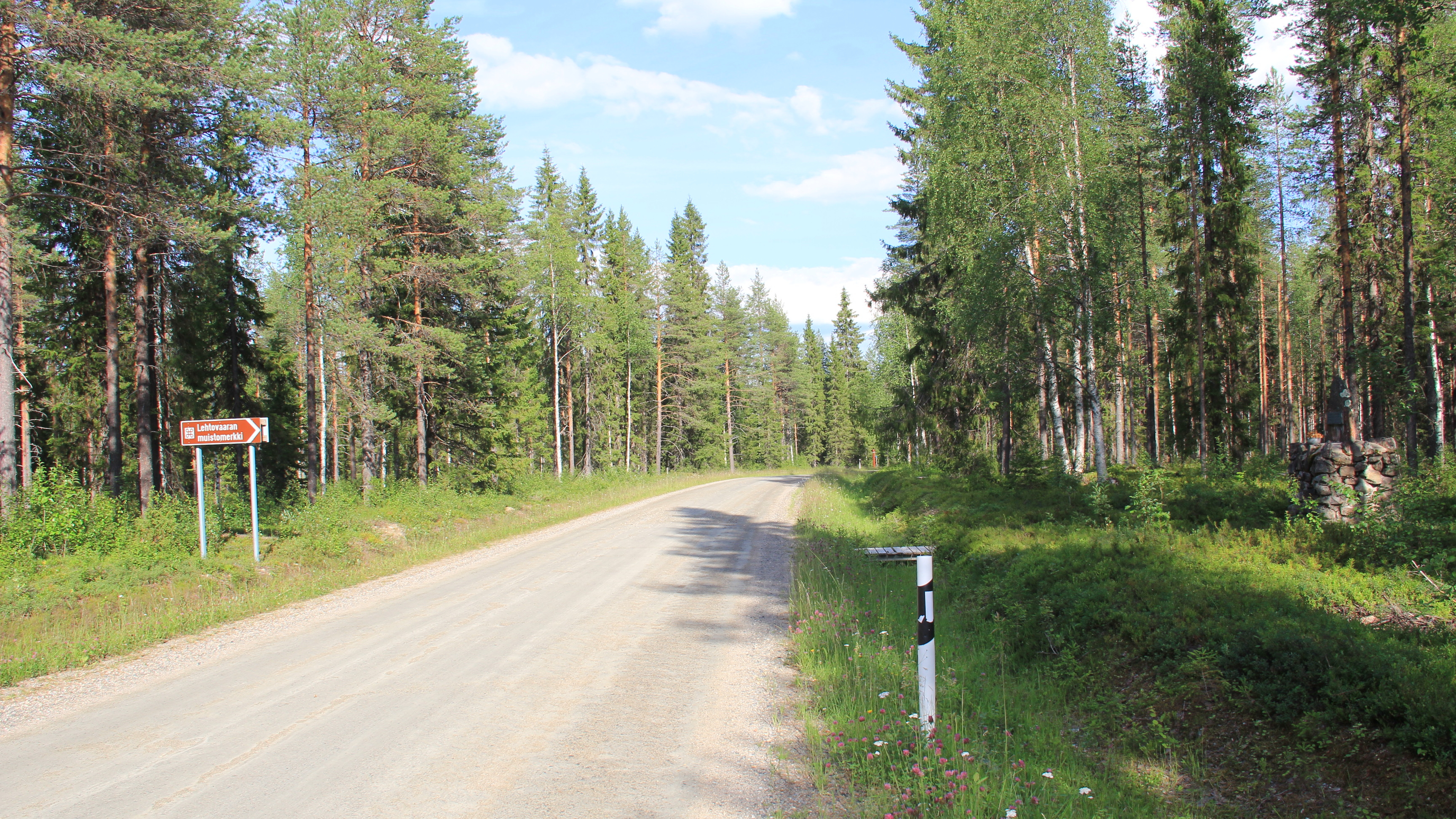 Lehtovaara road and Lehtovaara memorial of Winter war, Ruhtinansalmi, Suomussalmi, Finland. - Lehtovaara road leads to Finnish-Russian border. Lehtovaara memorial of Winter war first gunshots (right).